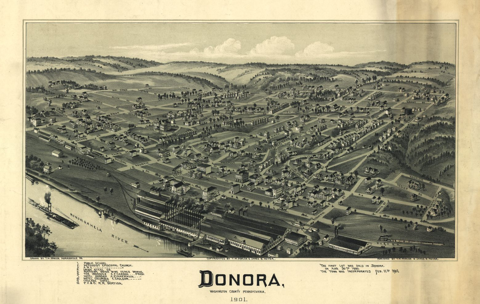 Pictorial map of Donora, Pennsylvania.